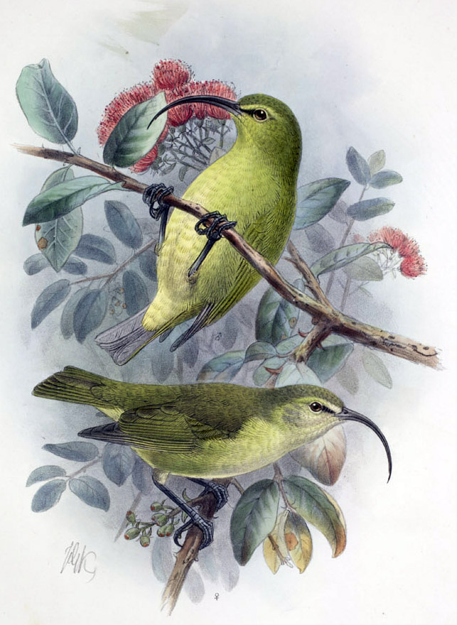 (Hemignathus obscurus), (Gm) male & female